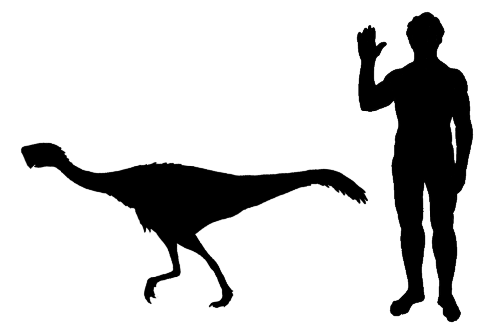 Size of Nemegtomaia compared to a human. Based on 2 metre size estimate in:[1]